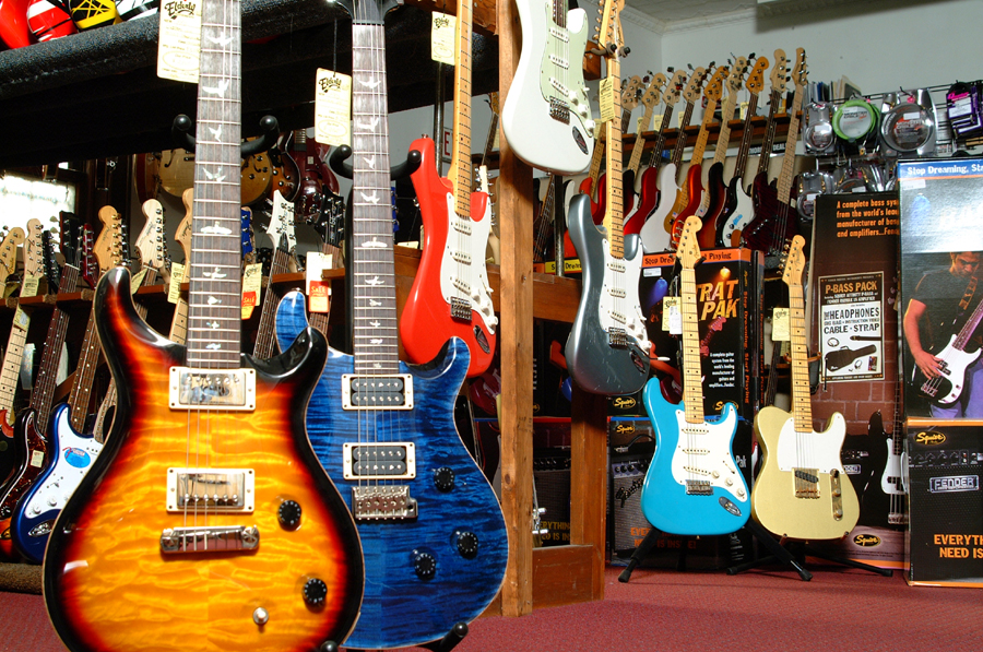 The showroom of Elderly Instruments in Lansing, Michigan